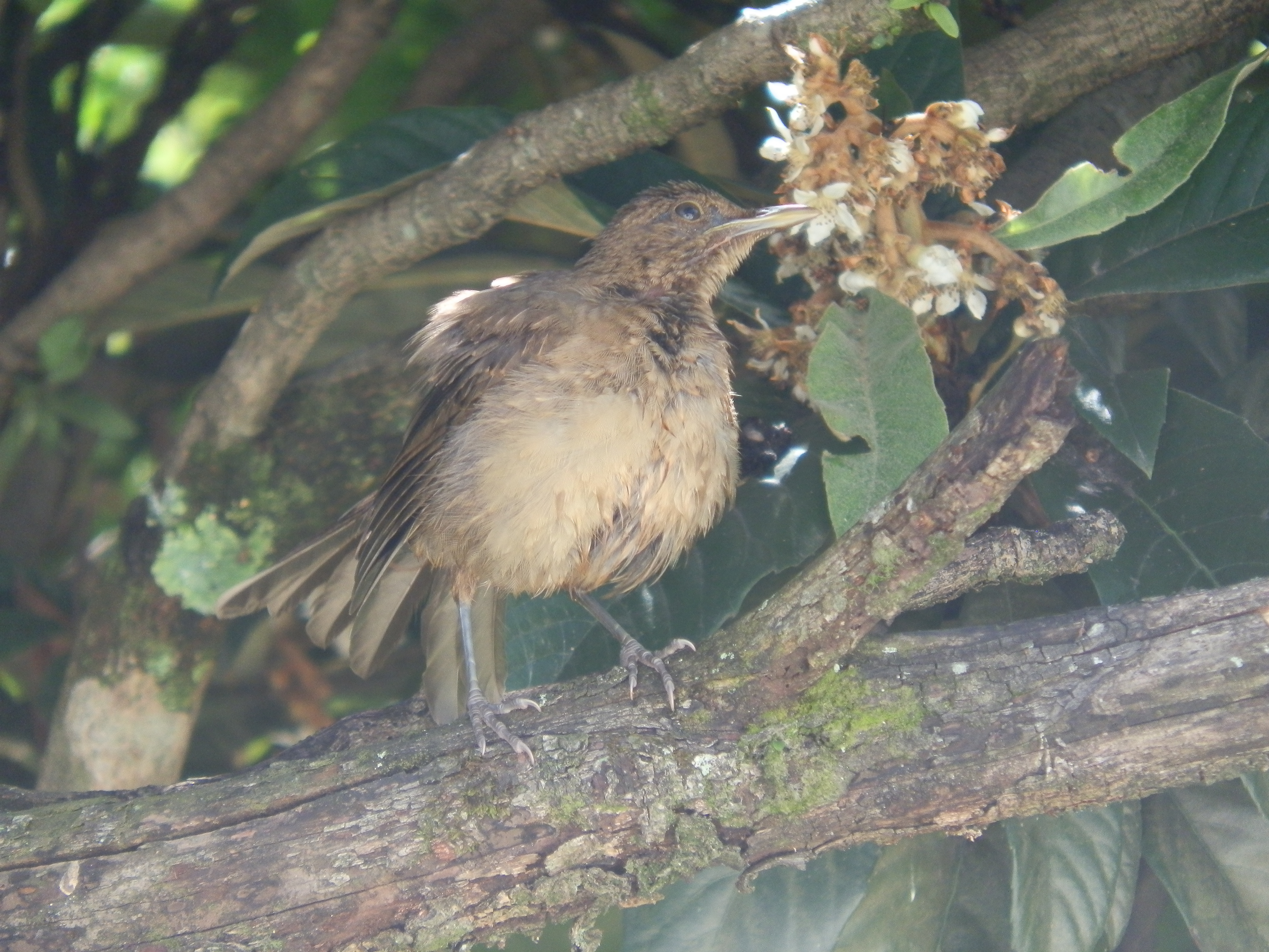 Juvenile Clay-coloured Thrush, San José, Costa Rica